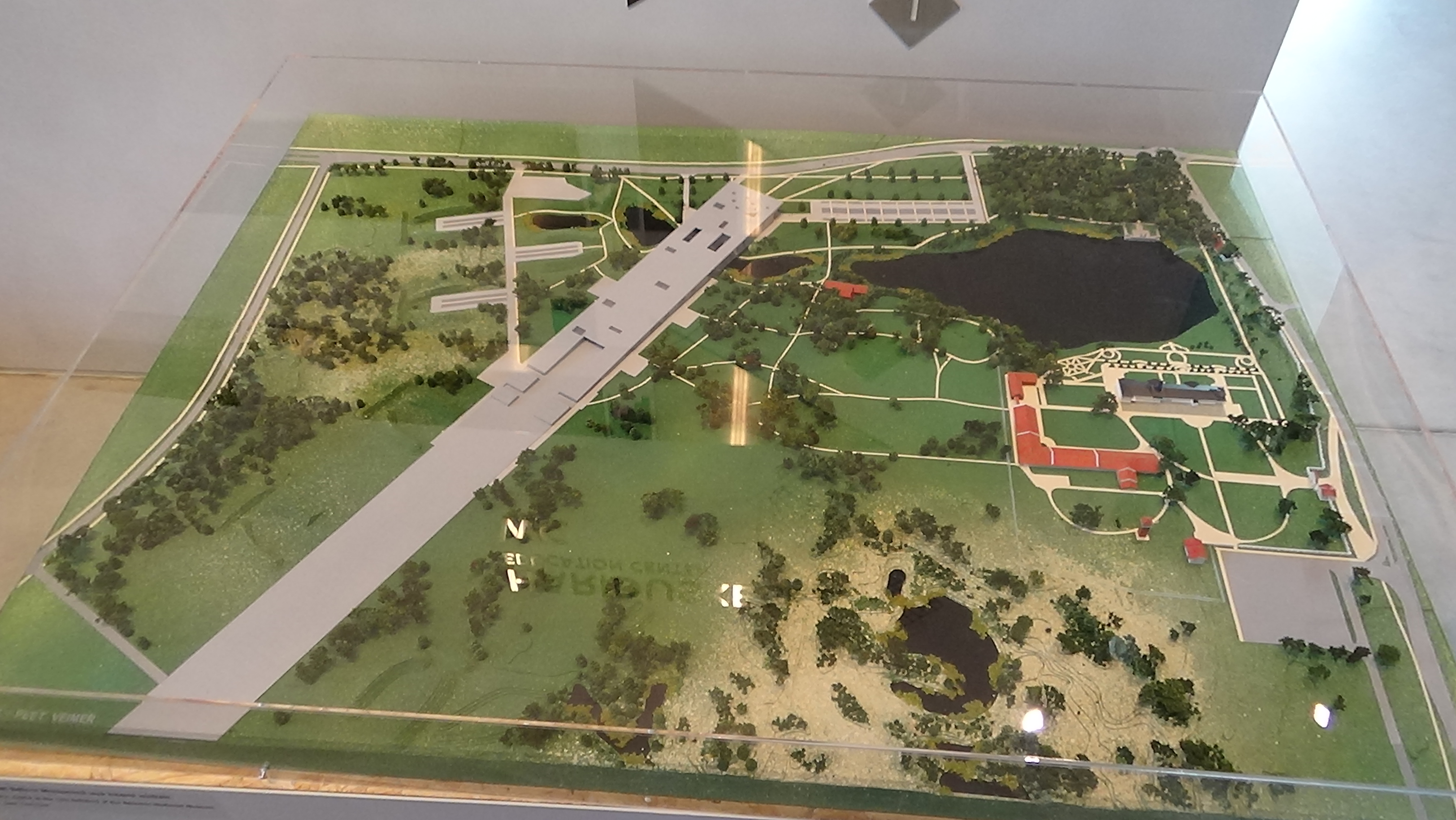 A model of the Estonian National Museum (Eesti Rahva Muuseum). Tartu